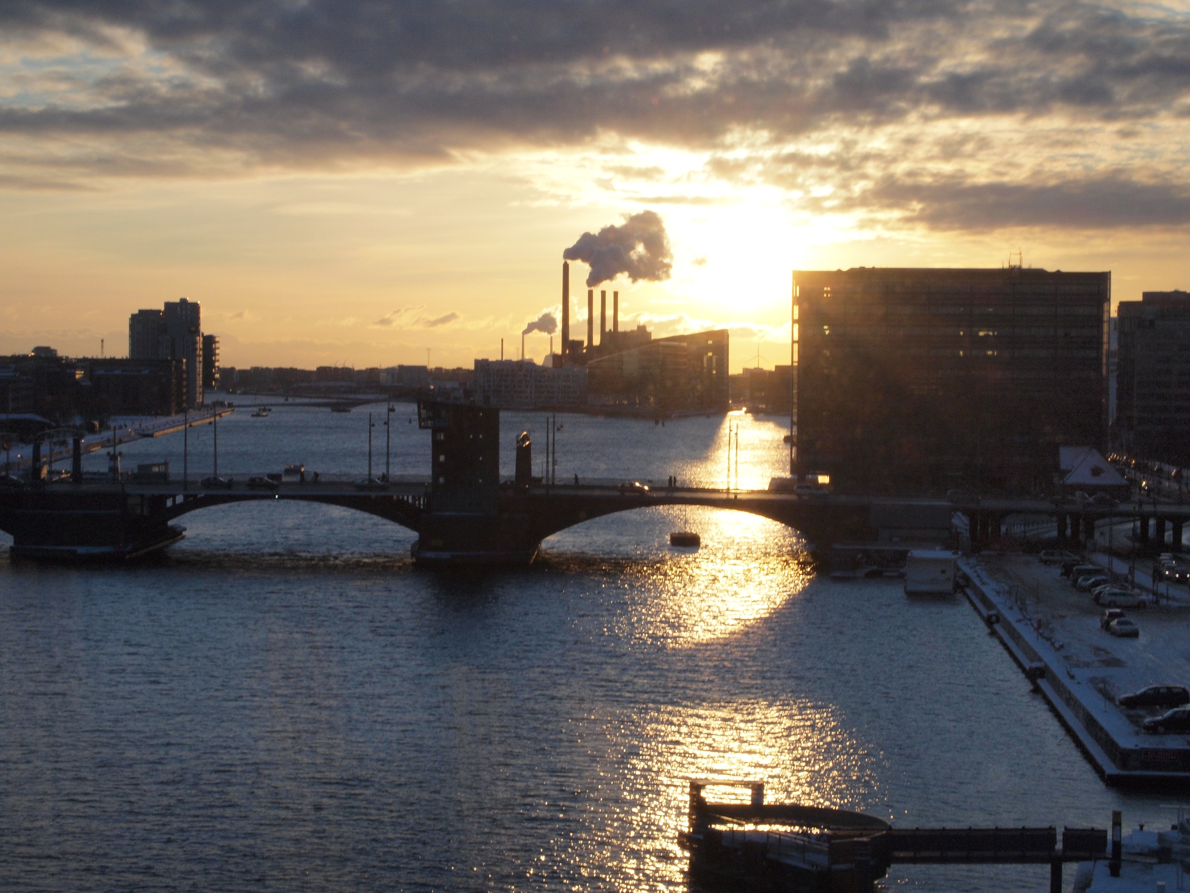 Port of Copenhagen with Knippelsbro and Langebro and H. C. Ørsted Power Station in the background.